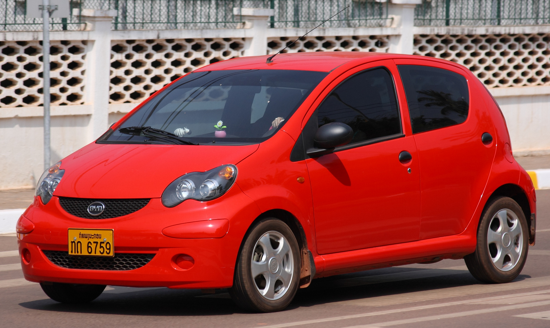 BYD F0 in Vientiane, Laos